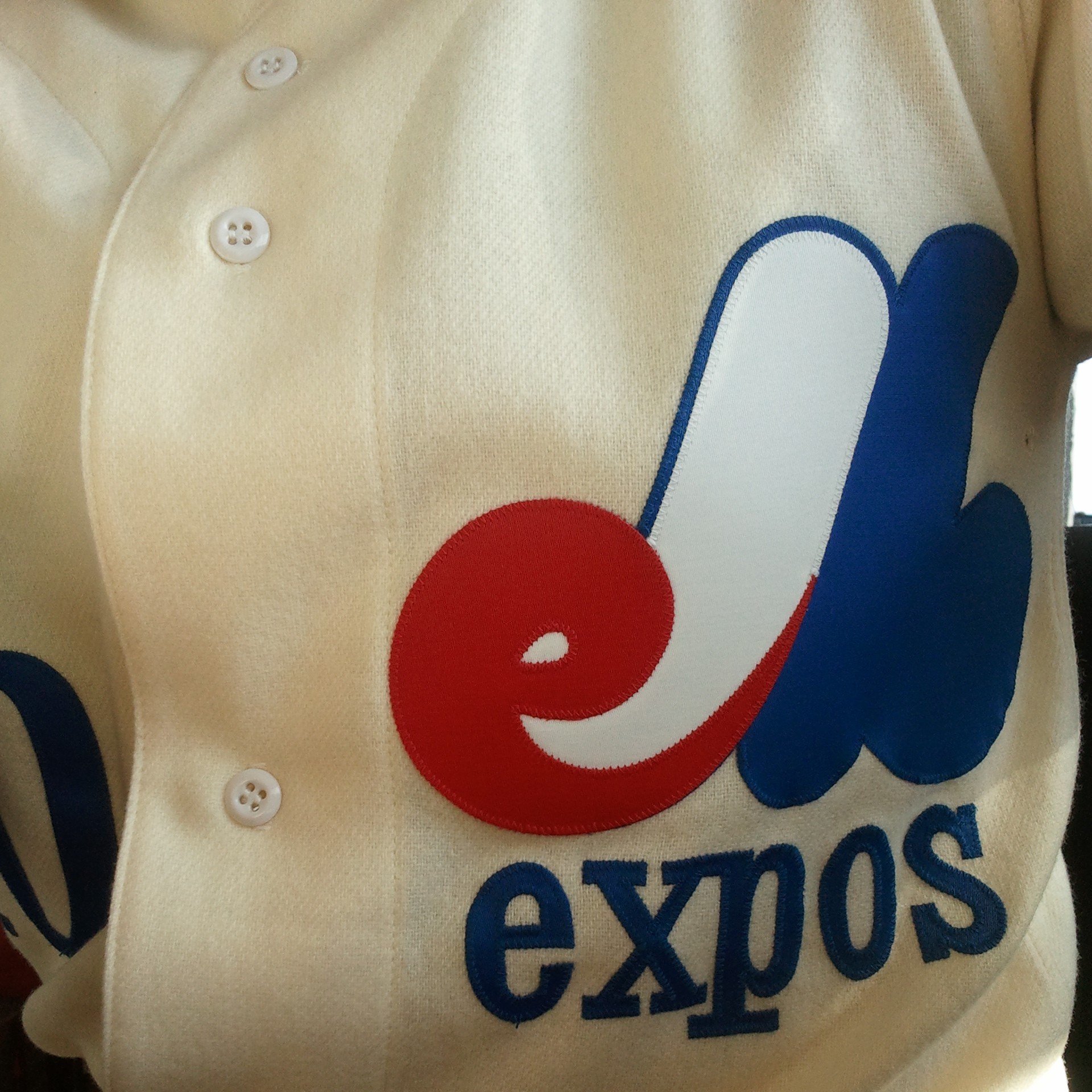 Montreal Expos first home uniform (jersey) worn by the Major League Baseball team from 1969 to 1991.